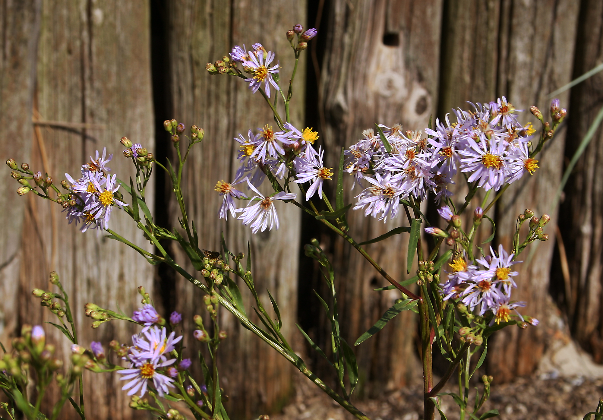 Aster tripolium (Aster tripolium), Mariager fjord, Denmark